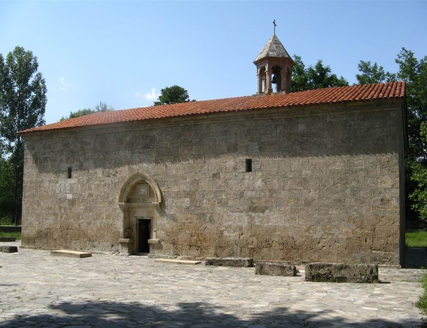 Church St. Elisha